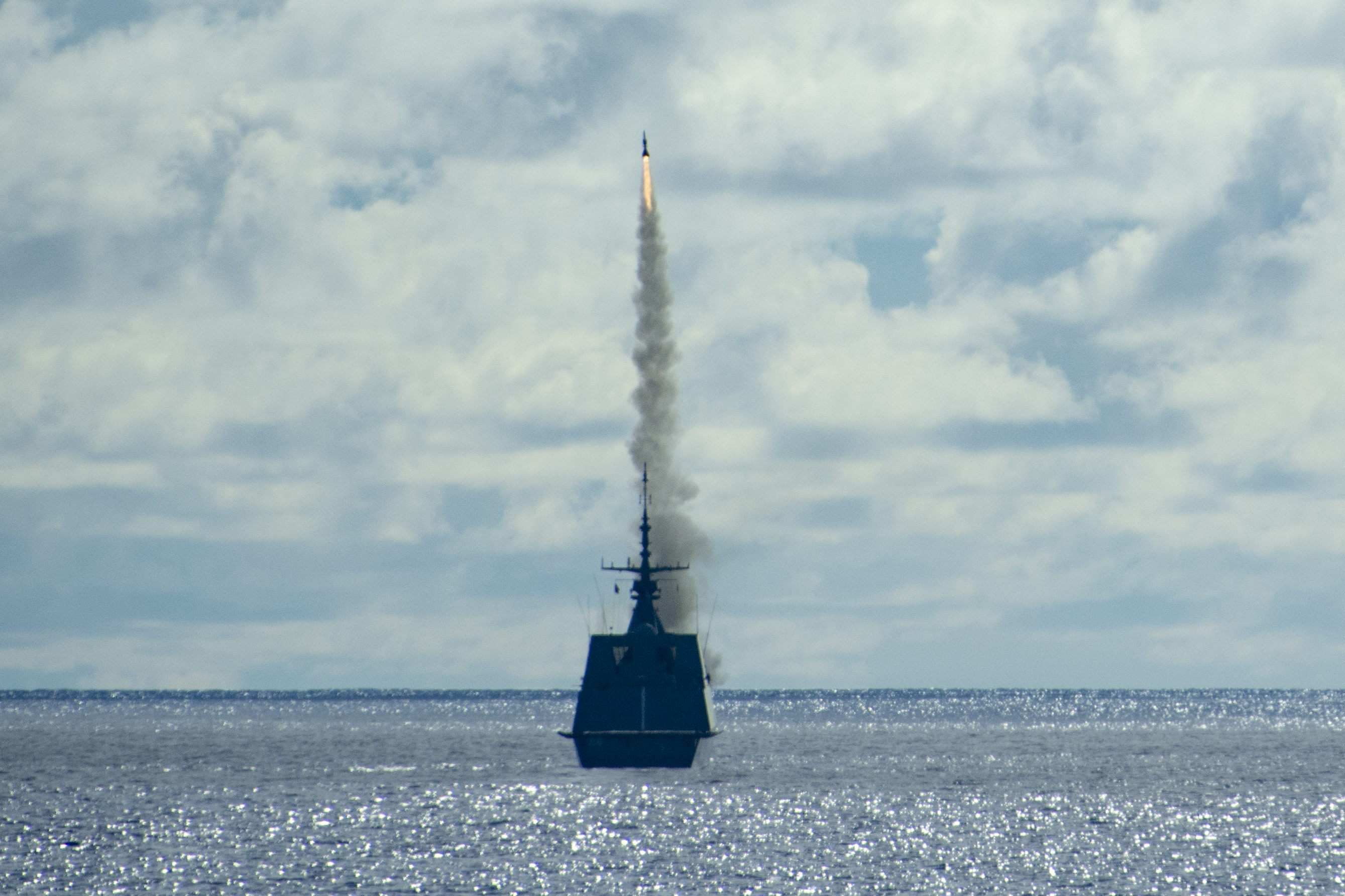 191002-N-RH019-0012 WATERS NEAR GUAM (Oct. 2, 2019) The Republic of Singapore Formidable-class guided-missile Frigate RSS Formidable (FFG 68) fires an Aster missile during Pacific Griffin 2019. Pacific Griffin is a biennial exercise conducted in the waters near Guam aimed at enhancing combined proficiency at sea while strengthening relationships between the U.S. and Republic of Singapore navies. (U.S. Navy photo by Mass Communication Specialist 2nd Class Sean Rinner/Released)